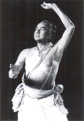 Guru Myadhar Raut